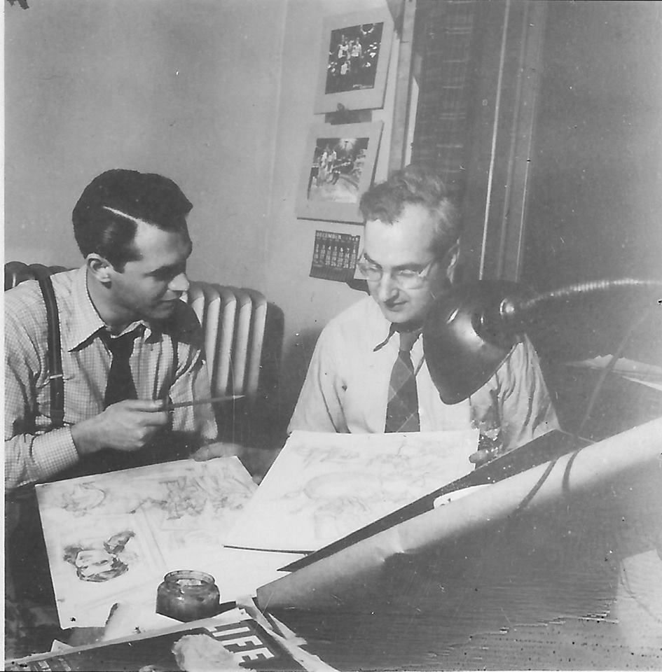 Caption underneath should read: Harris Levey (aka "Lee Harris") on left with pencil, at art table. Circa 1946).